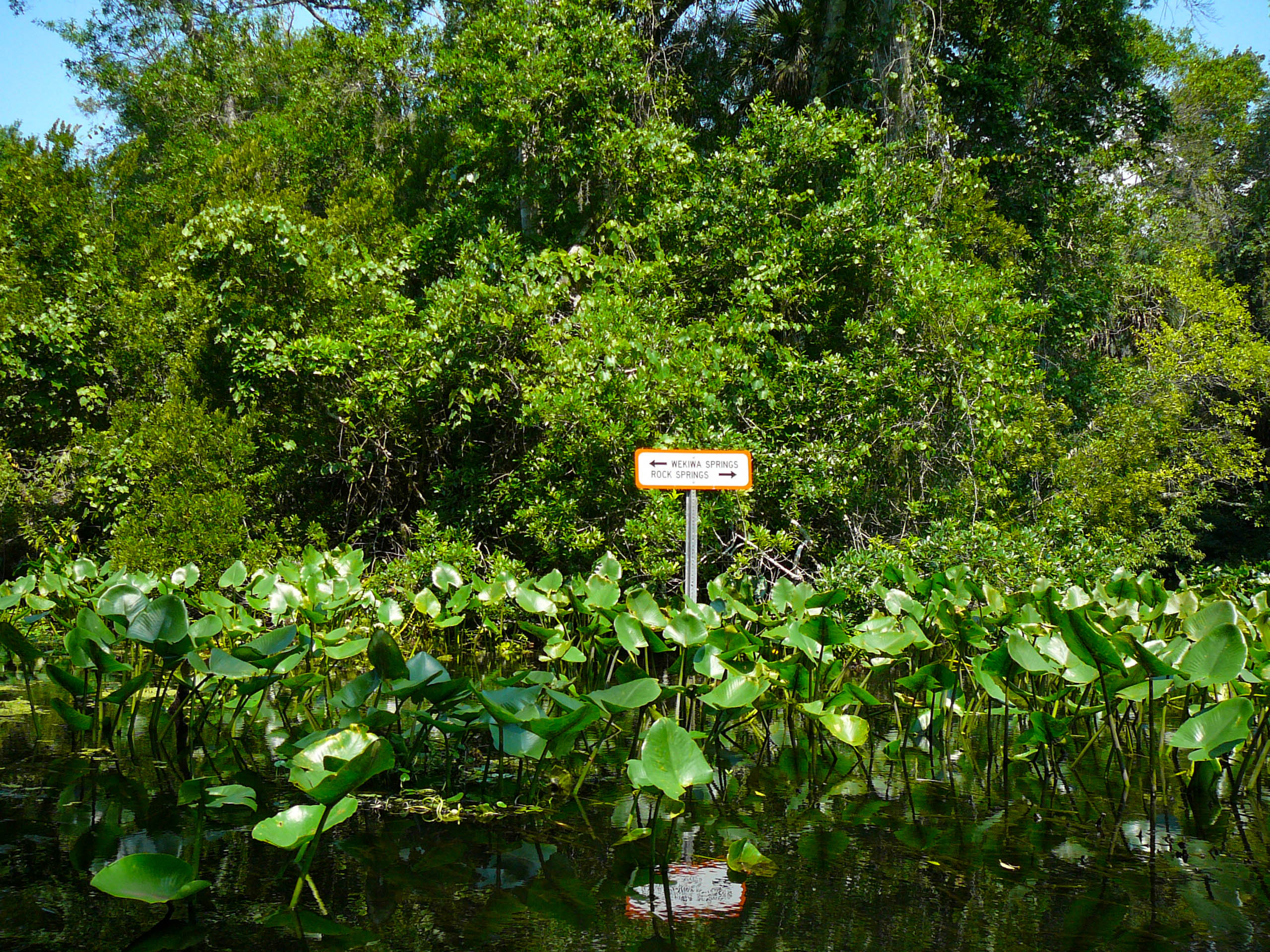 The Wekiva Springs River in Longwood, FL